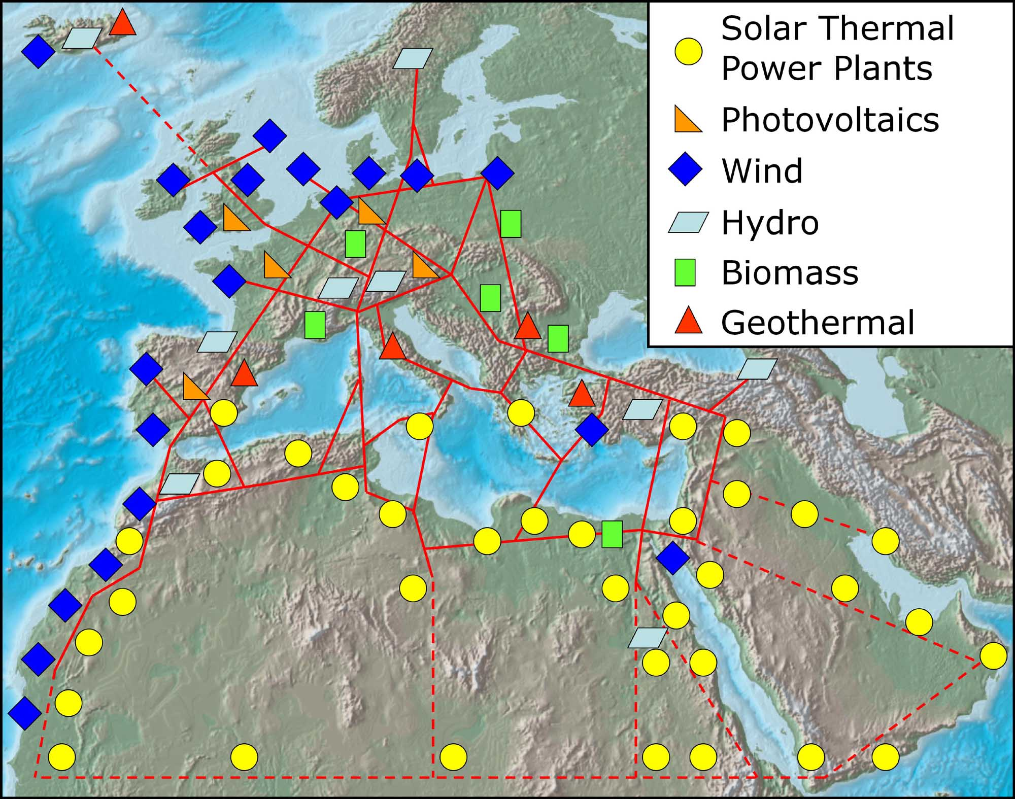 Sketch of possible infrastructure for a sustainable supply of power to EUrope, the Middle East and North Africa (EU-MENA).